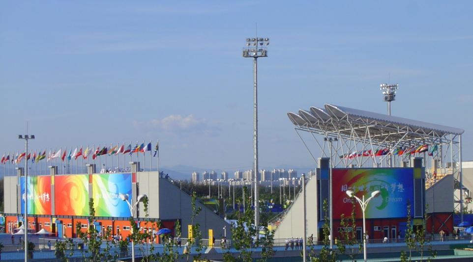 The Olympic Green Archery Field from outside.